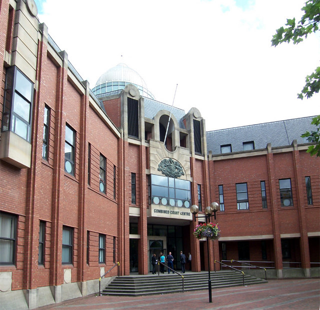 Kingston-upon-Hull Combined Court Centre (Crown Court and County Court), Lowgate, Hull HU1 2EZ.